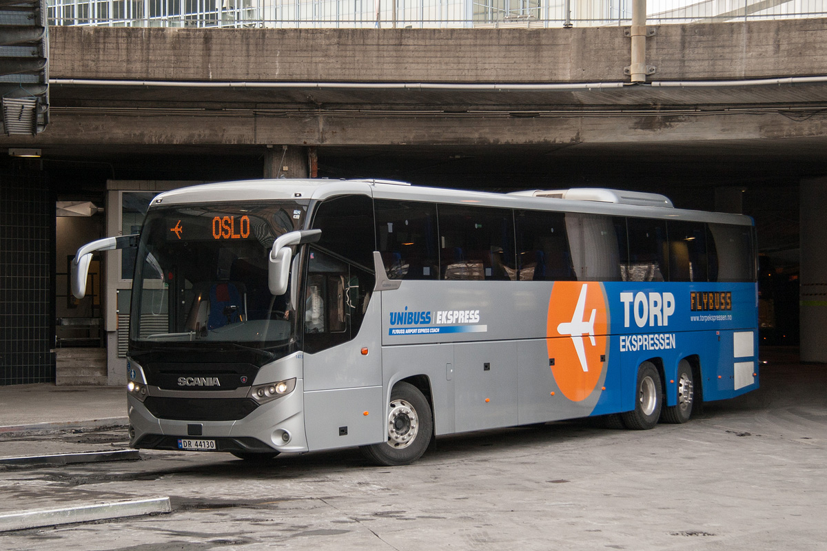 Torp-Ekspressen in Oslo.